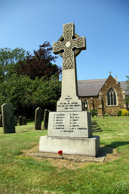 Ludford War Memorial The memorial stands in the churchyard of St. Mary & St. Peter, Ludford Magna. As seen in this view it lists thirteen men from the village who fell in the Great War.